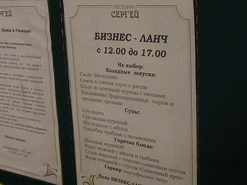 Business lunch menu, Sergey Resteraunt on Kammergansky Pereluk, photo taken by me.